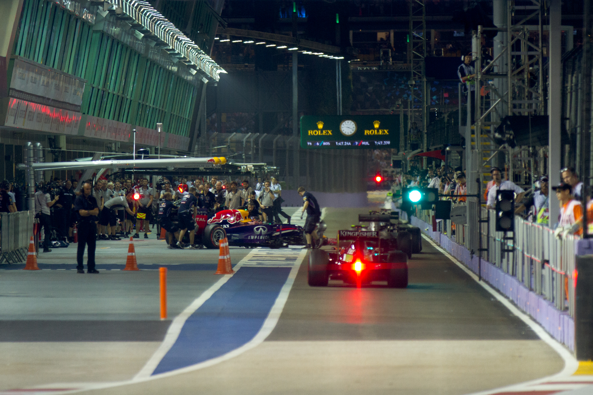 Formula One 2014 Rd.14 Singapore GP: Pit lane